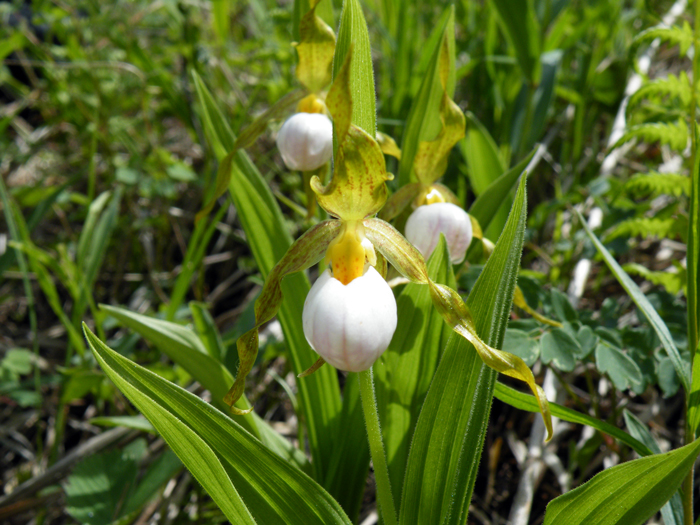 Cypripedium candidum - flower